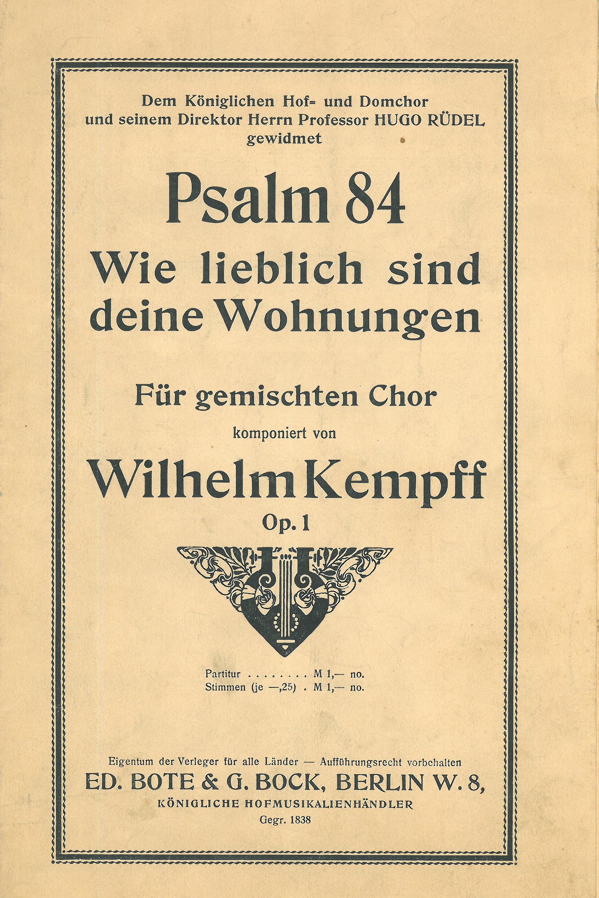 Cover of Kempff's Psalm 84 (first edition)